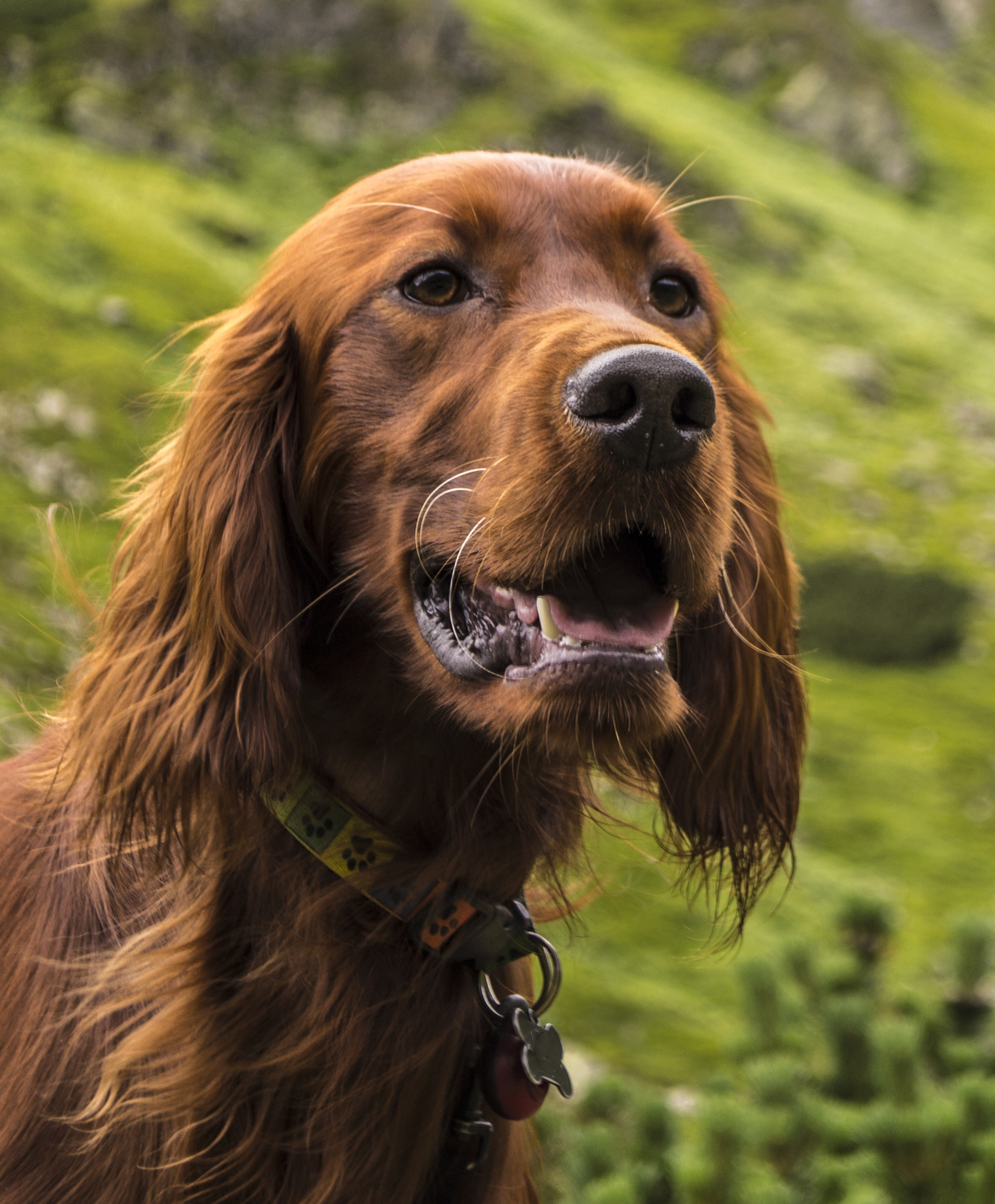 Irish Setter head